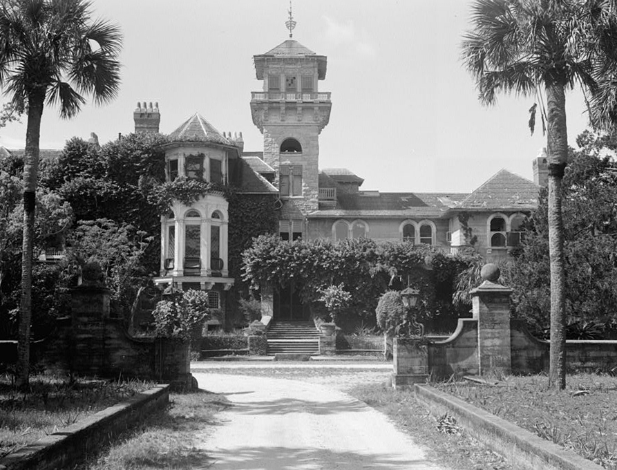 Dungeness mansion — on Cumberland Island, Georgia. Prior to damage from the 1959 fire. 1958 image: Historic American Buildings Survey of Georgia (U.S. state).